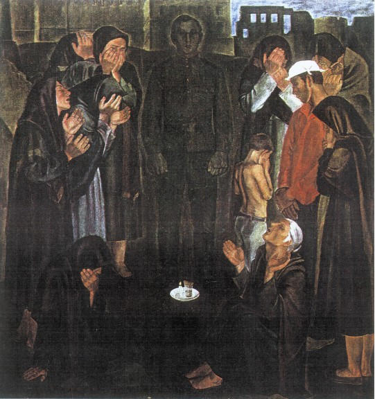 “Ballad of a Soldier - Memories”. Oil on canvas. 1,89 x 1,98 m. 1975. A painting owns by the Ministry of Culture of Dagestan.